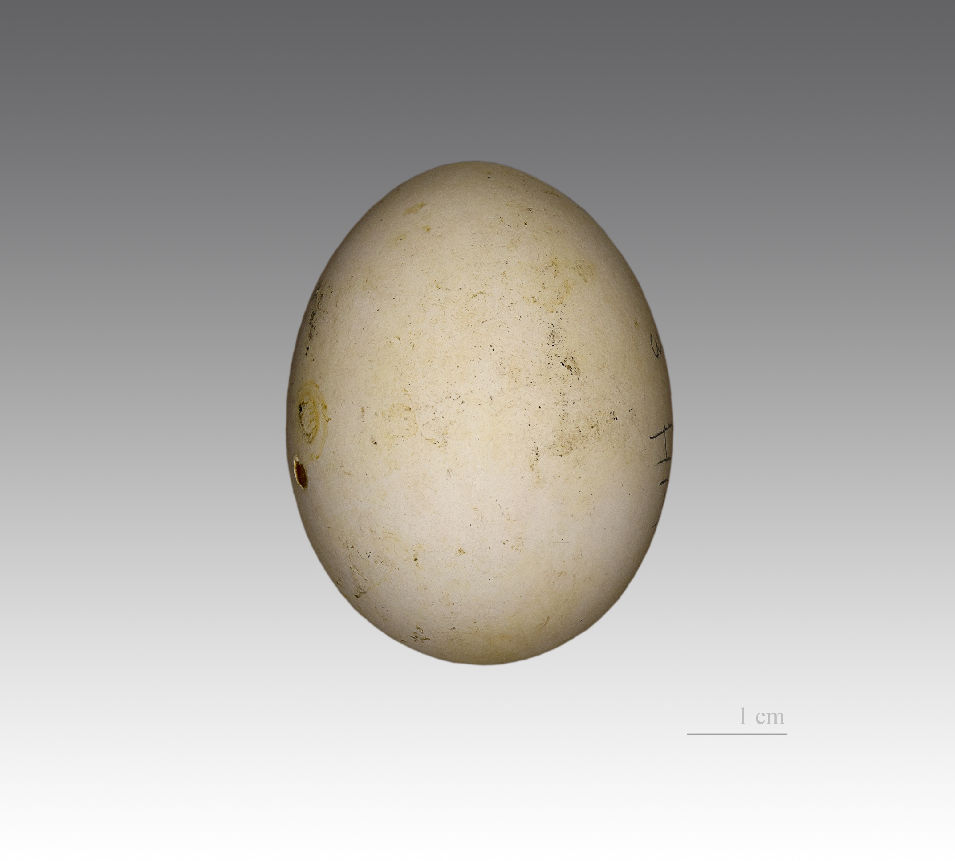 Egg of Blue Petrel. Collection of Vincent Bretagnolle / Jacques Perrin de Brichambaut. Locality: Mayes Islands, Kerguelen Islands, France